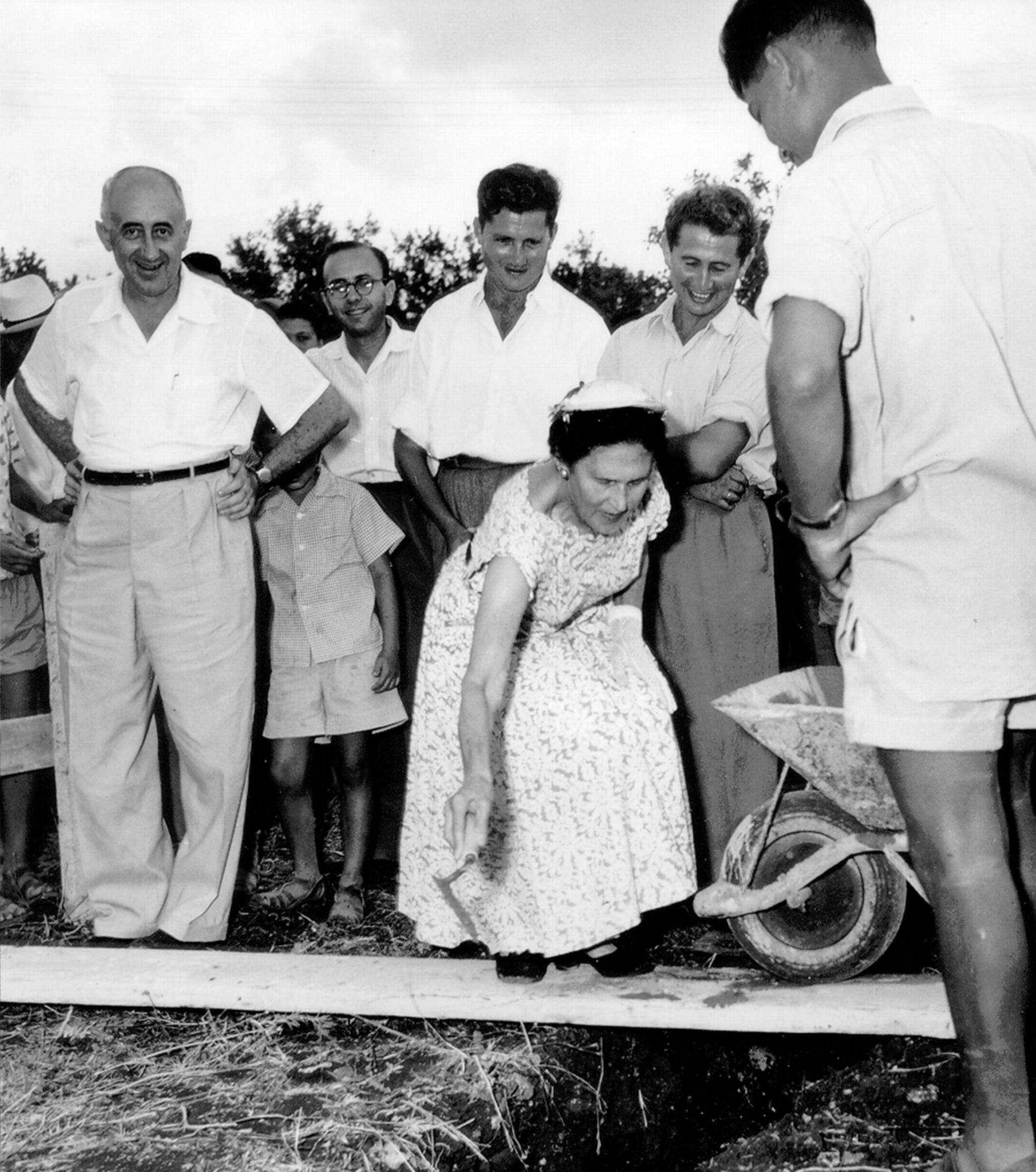 Foundation stone laying ceremony with Rose Halperin in Aliyat Hano'ar boarding school in Alonei Yitzhak.